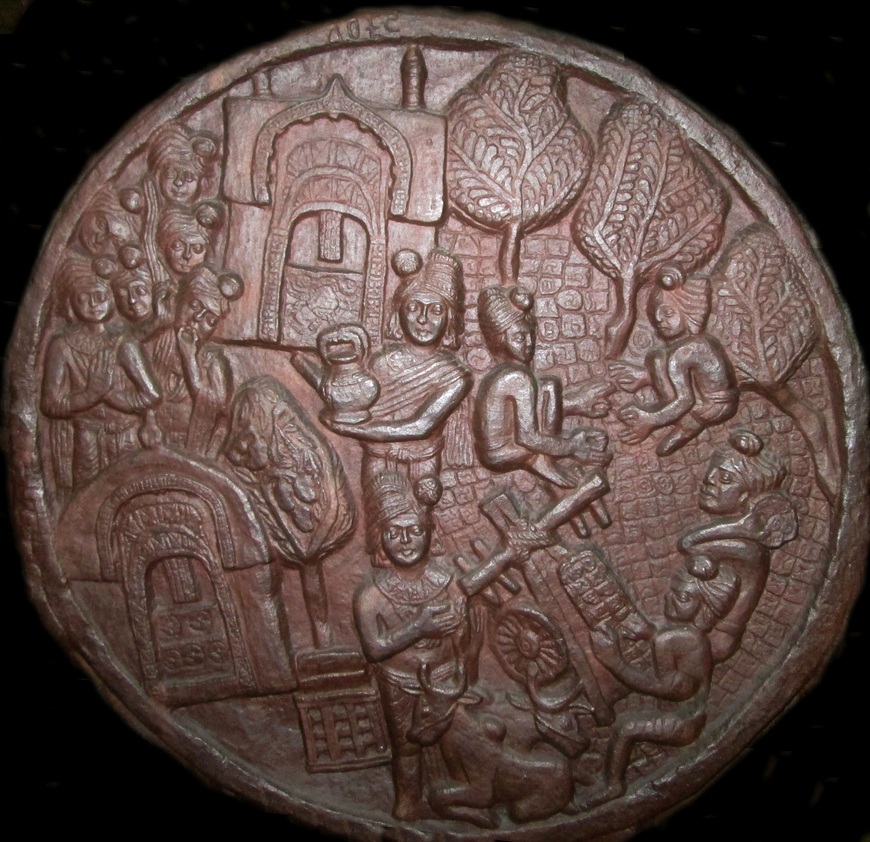 Bharhut, the Jetavana Jataka